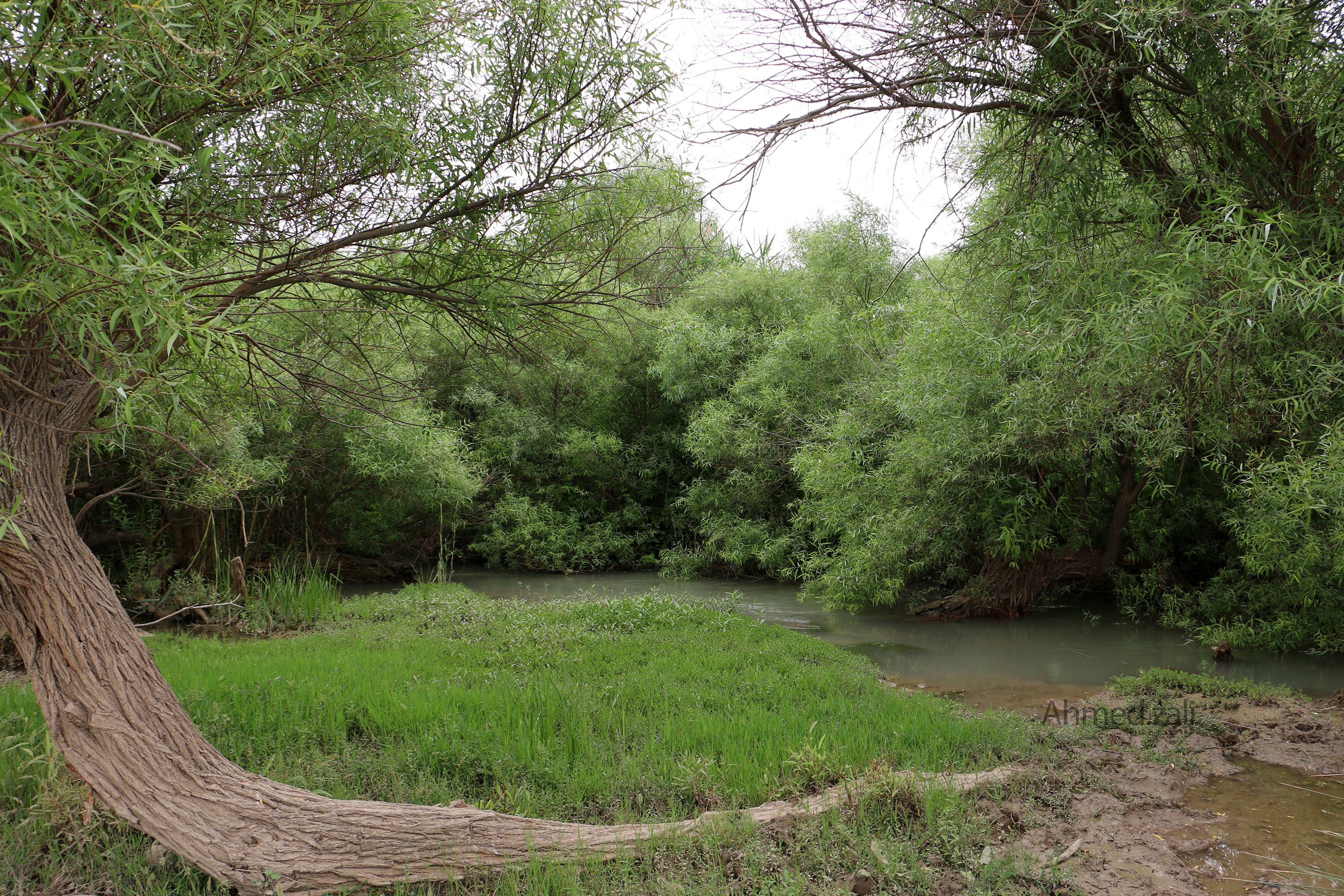 بیشه زار بید- رود شاوور